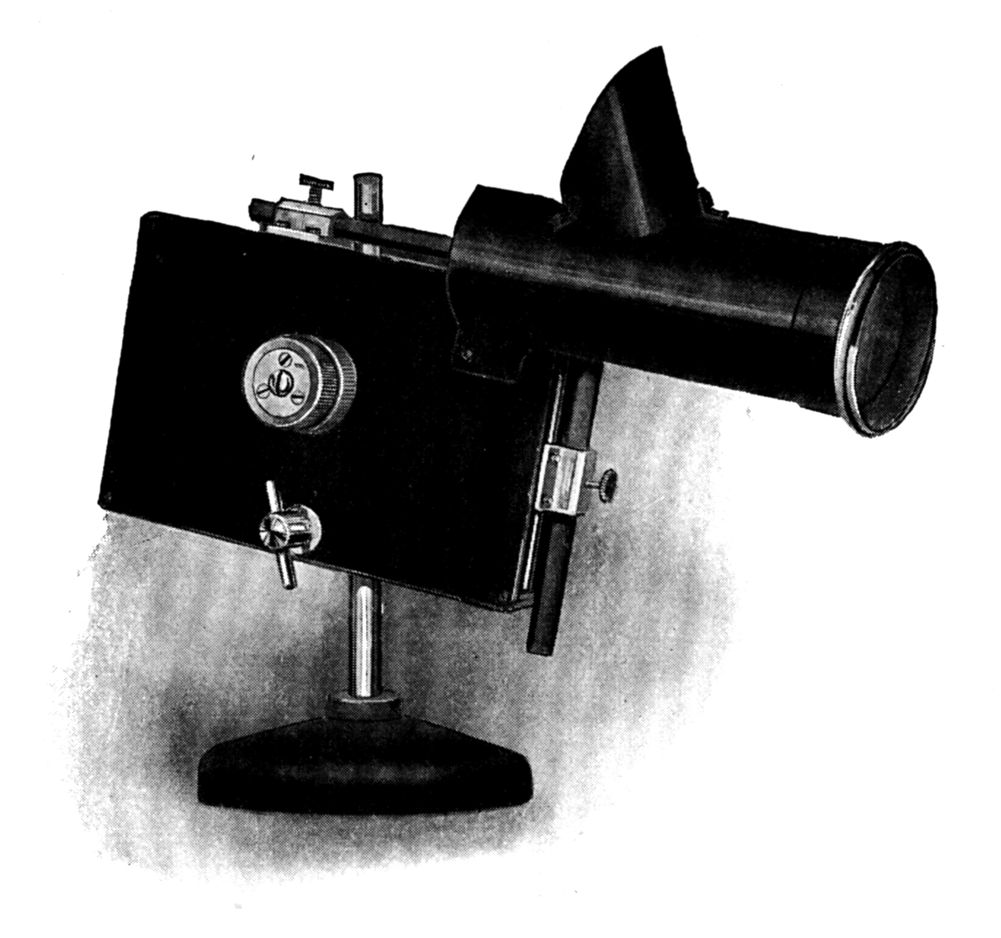 caption: "Fig. 42. The Small Arc Lamp of the Spencer Lens Co. With this small arc lamp the two carbons may be moved separately or together, as the carbon movement is like that of the larger lamps, i.e., one shaft within the other, and the corresponding milled heads are placed close together, so that either can be turned separately or both together. It is arranged for giving parallel or converging light. When used with the magic lantern the special condenser and its tube are removed."